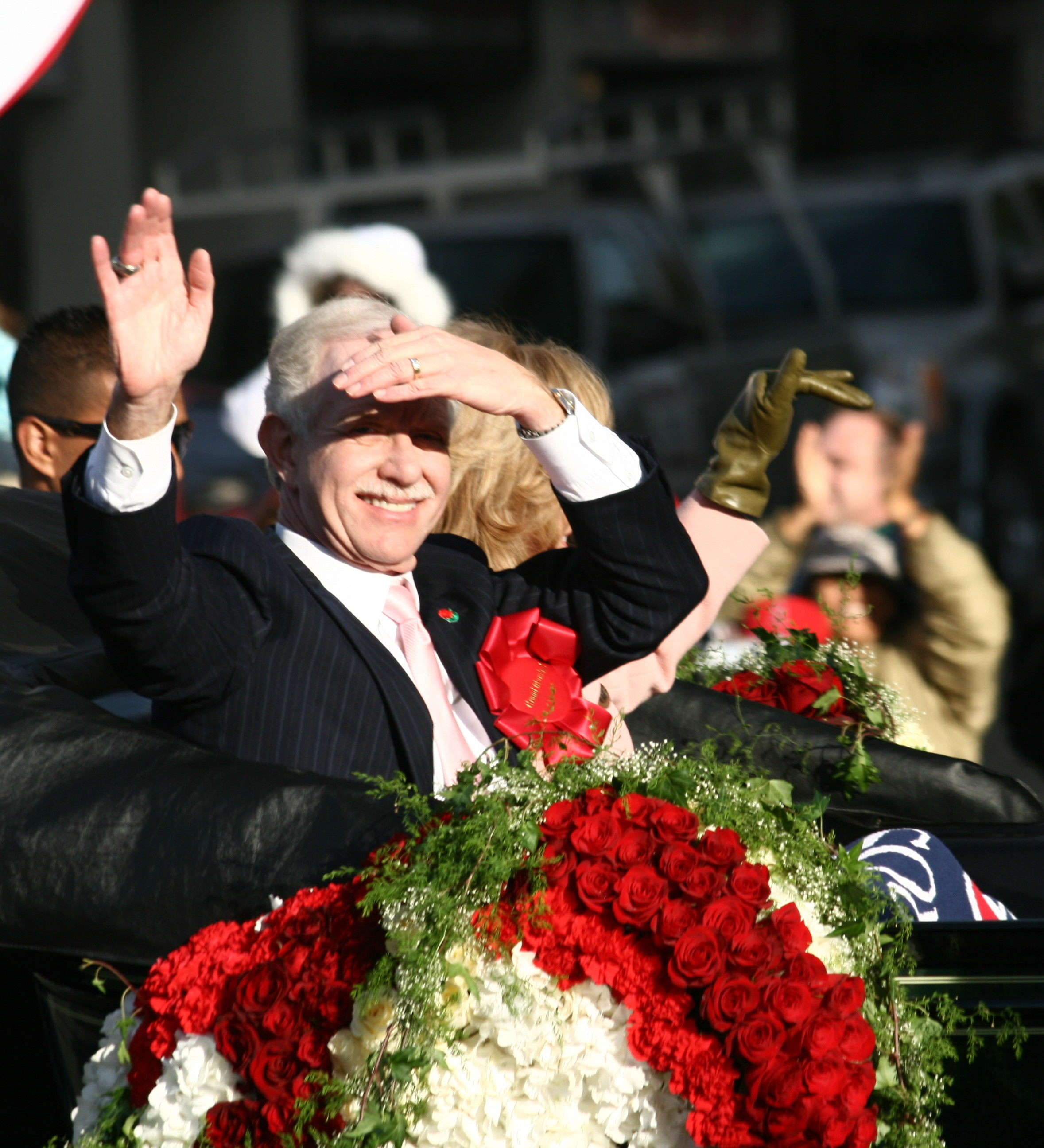 2010 Rose Parade theme was : Cut Avove The Rest, and he was the prefect Grand Marshal to fit the theme of the parade. Chesley B. "Sully" Sullenberger III, 57, of Danville, Calif., was the pilot of US Airways Flight 1549 that laned in the Hudson River on January 15th, 2009. All 155 passengers aboard the flight were rescued from the freezing waters. The cause of the crash was due to the planes colliding with a flock of birds just minutes after takeoff.